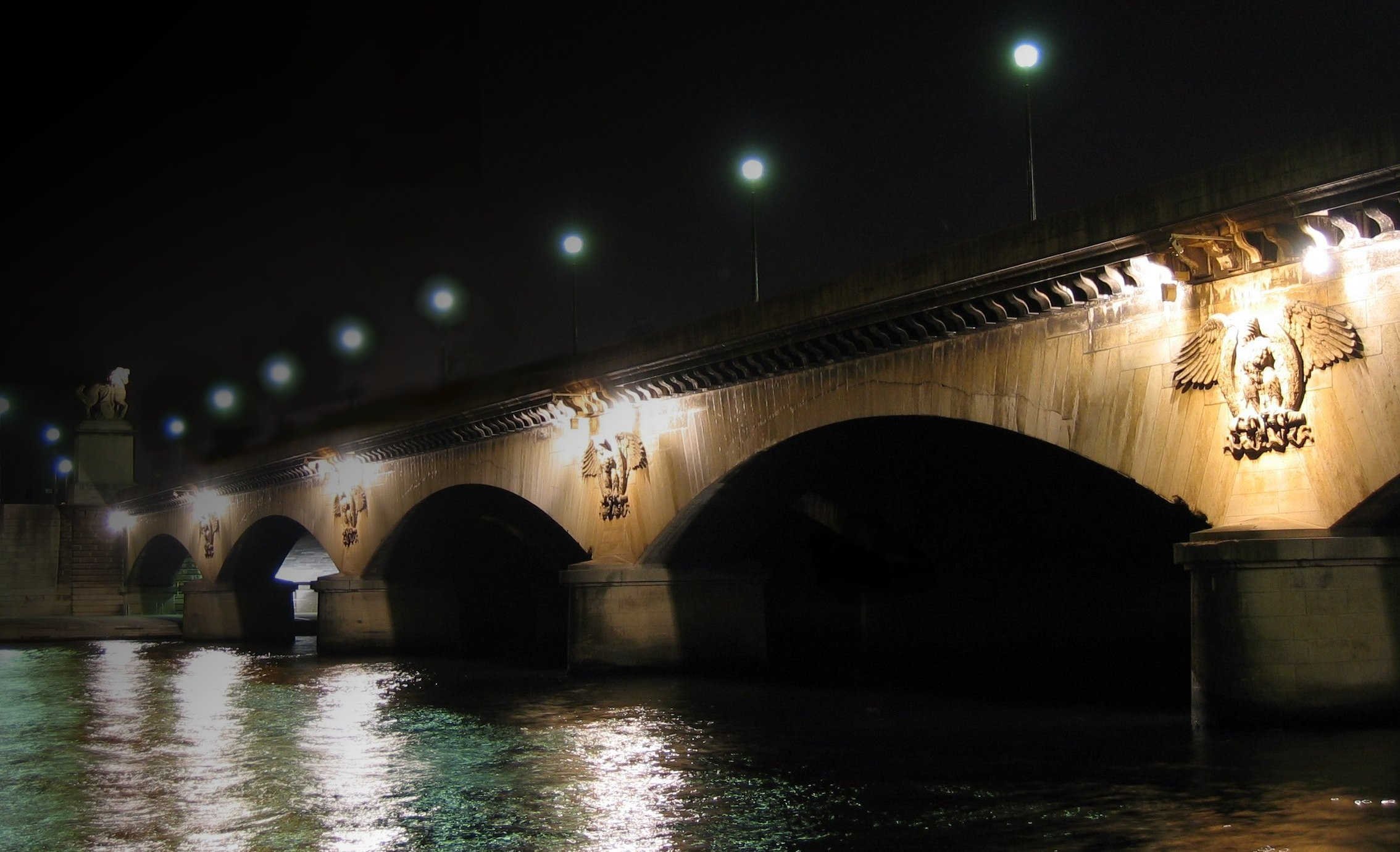 Night shot of the Pont d'Iéna in Paris, France.